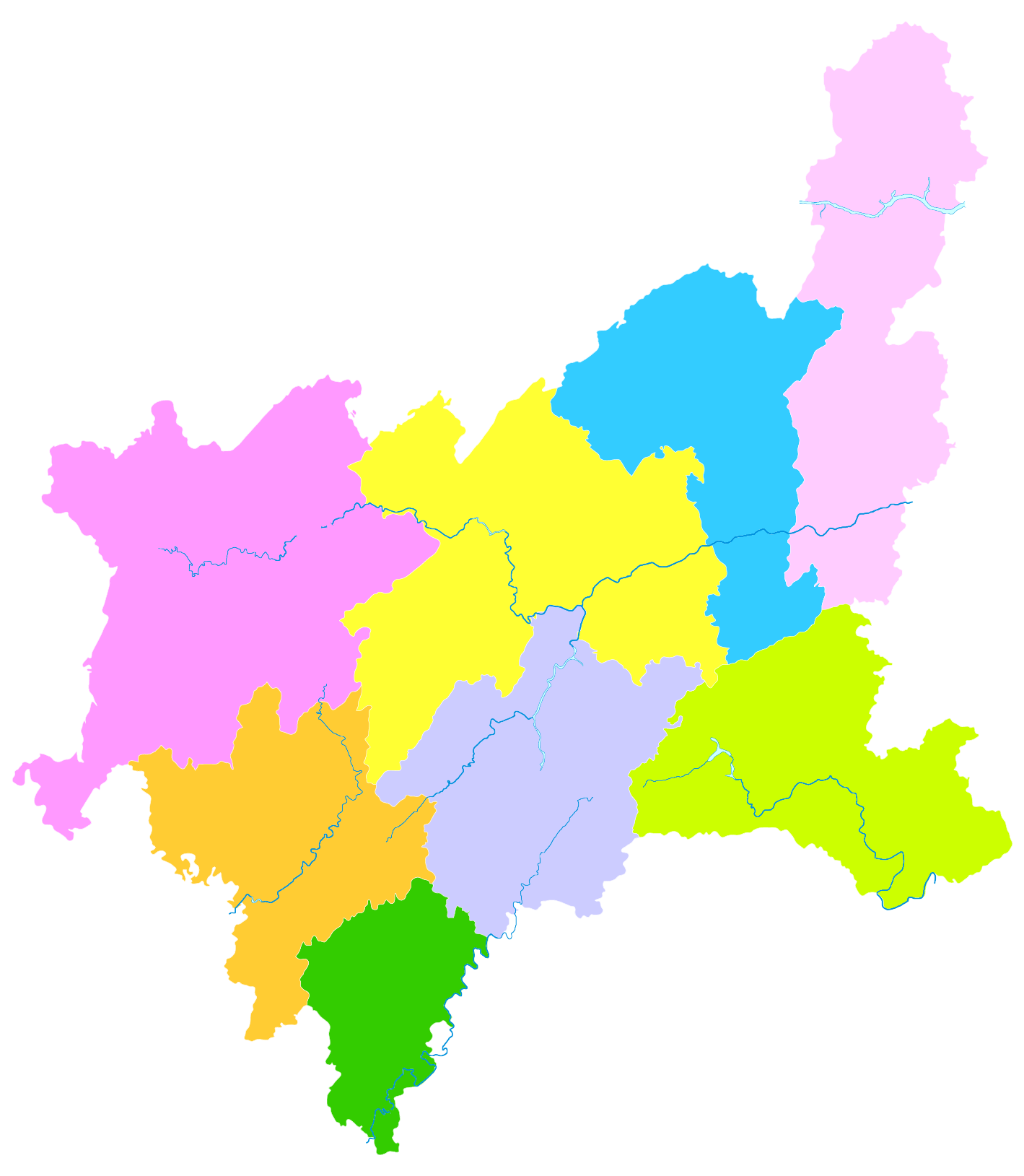 administrative division of Enshi Tujia and Miao Autonomous Prefecture, Hubei, China